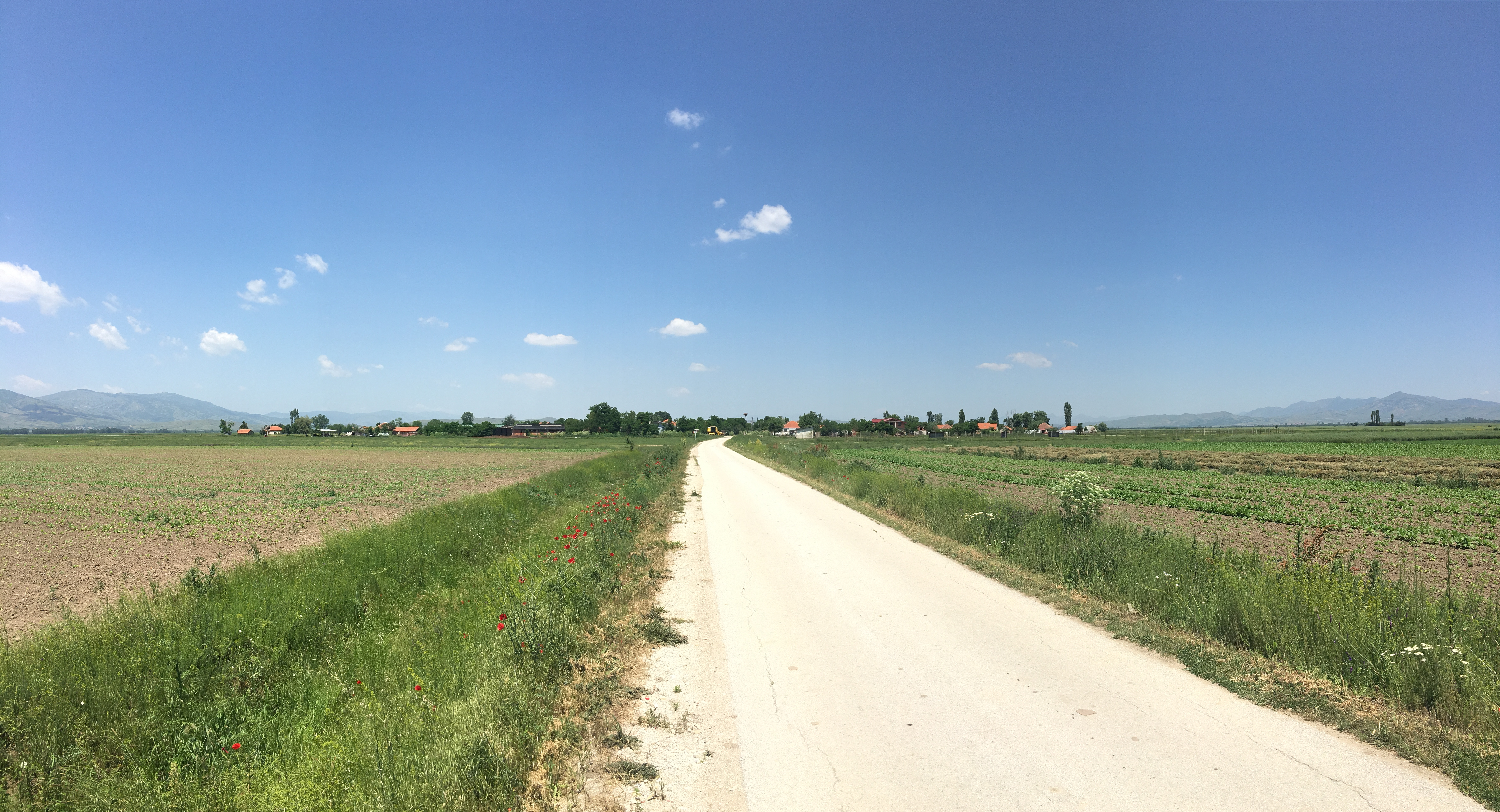 A panoramic view of the village of Dolna Čarlija